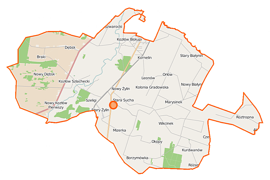 Map of Gmina Nowa Sucha, Poland This map of Nowa Sucha (gmina) was created from OpenStreetMap project data, collected by the community. This map may be incomplete, and may contain errors. Don't rely solely on it for navigation. Border coordinates52.214820.0727←↕→20.325752.1111